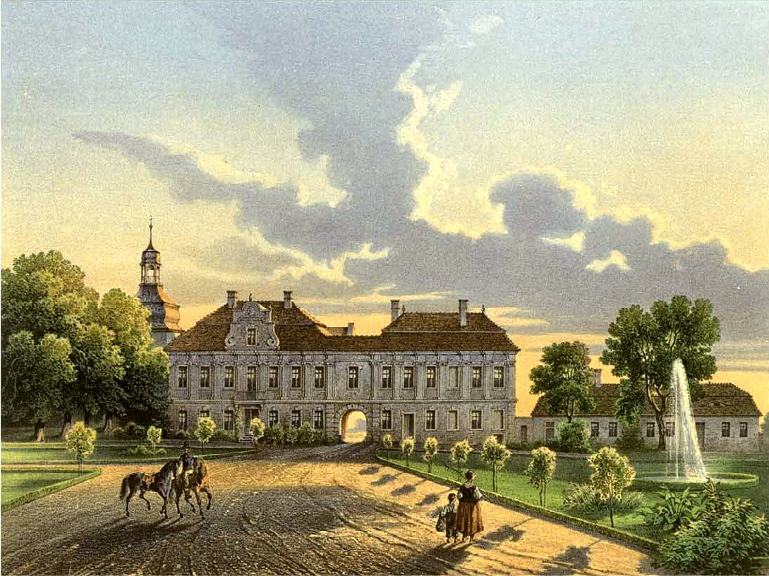 Palace in Turawa